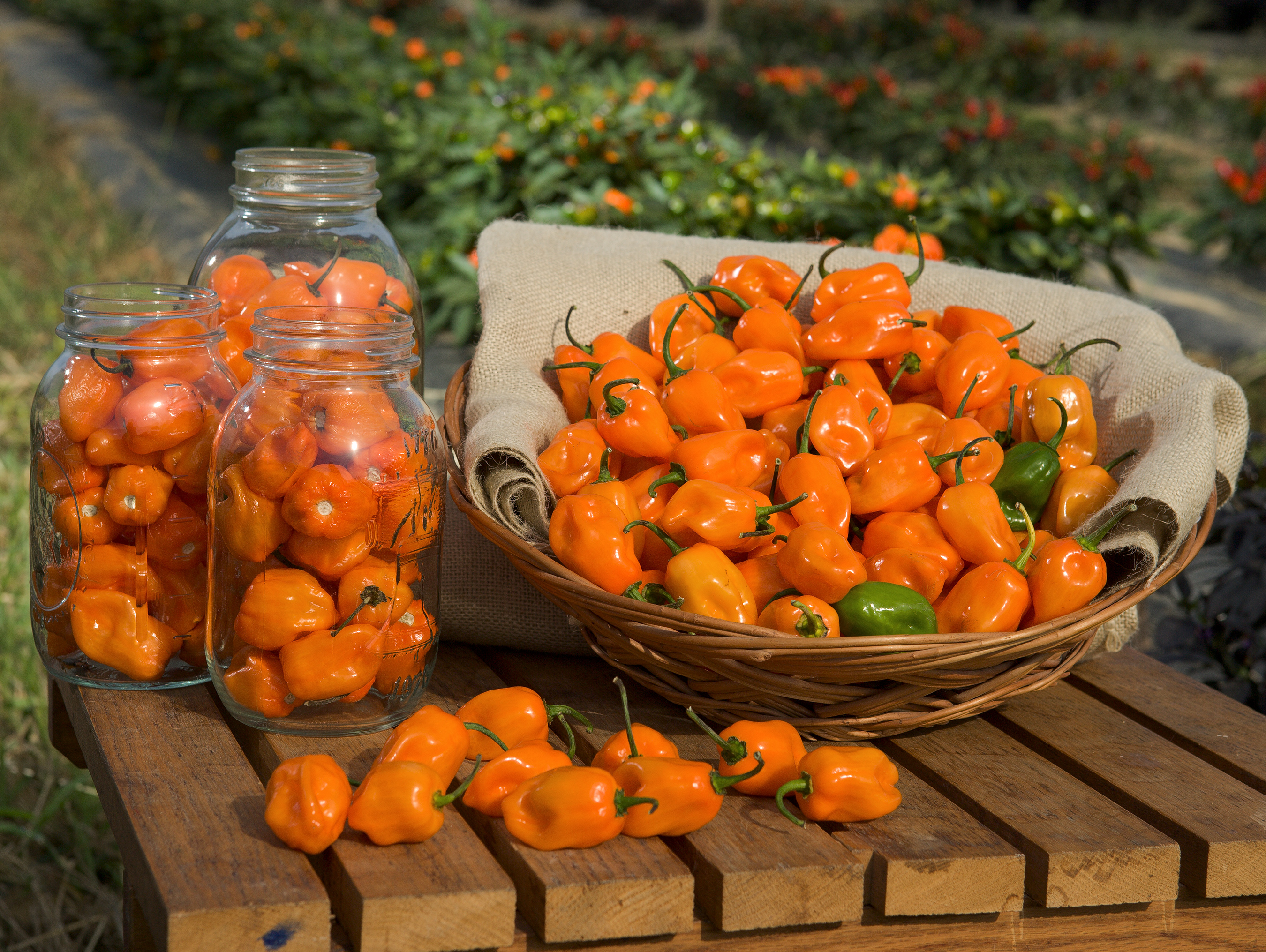 TigerPaw-NR, a new habanero pepper developed and released recently by ARS scientists is highly resistant to many important species of root-knot nematodes and is among the spiciest peppers ever developed.